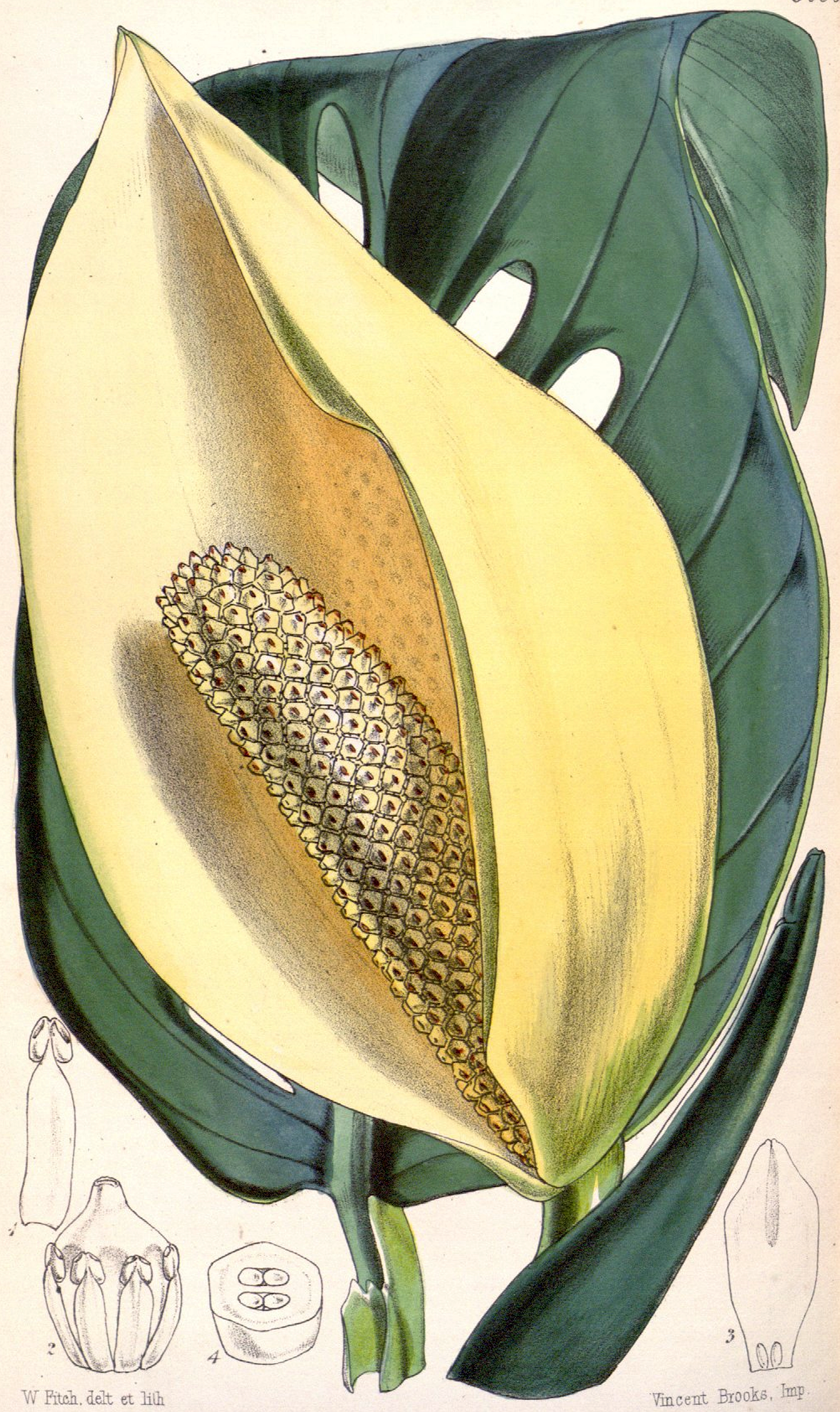 Monstera adansonii